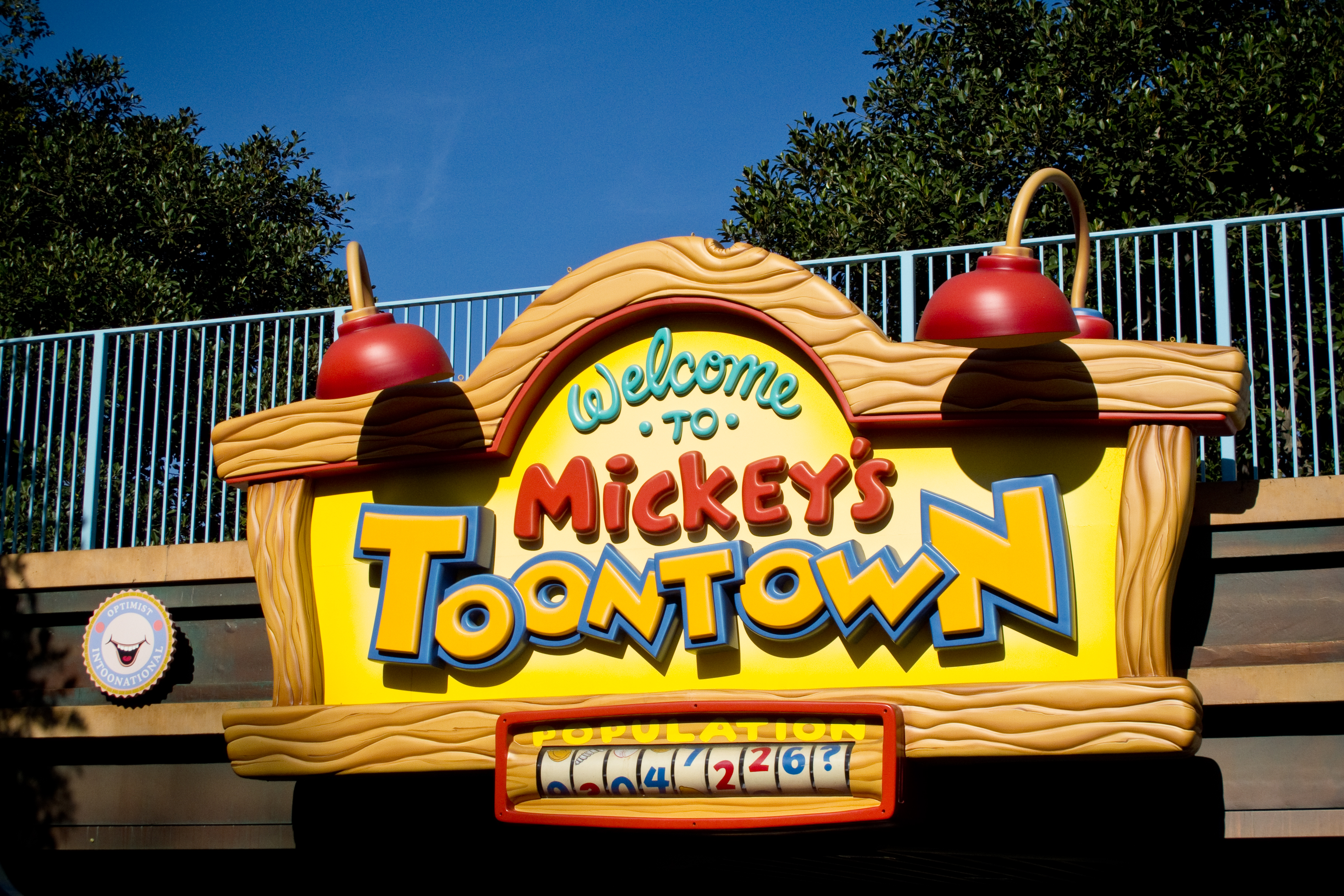 A sign above the entrance for Mickey's Toontown in Disneyland.